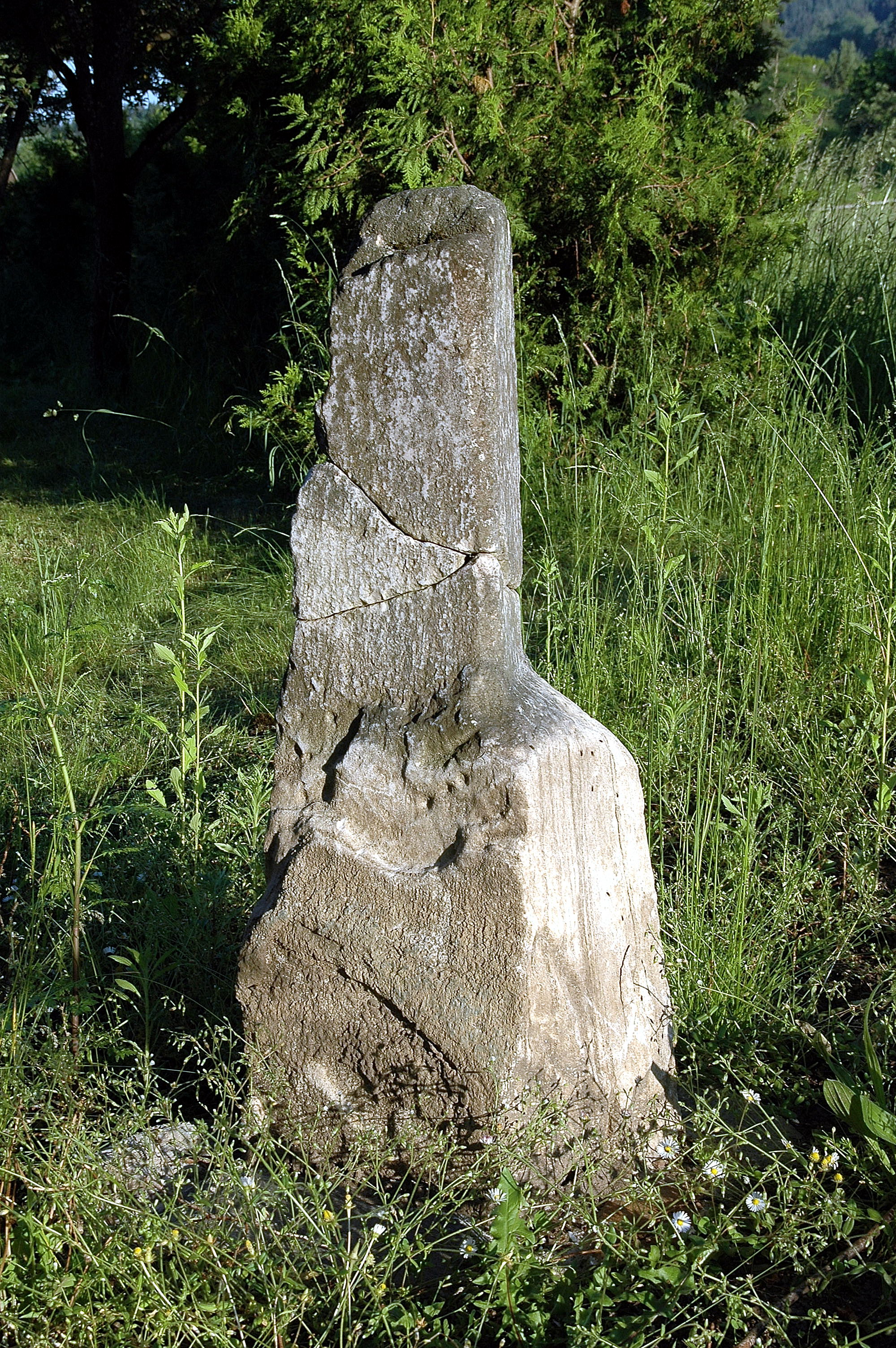 Boundary stone from 1809 at Markstein, municipality Feldkirchen, Carinthia, Austria